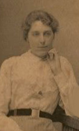 Australian advocate for Indigenous Australians Edith Jones (1875 - 1952)